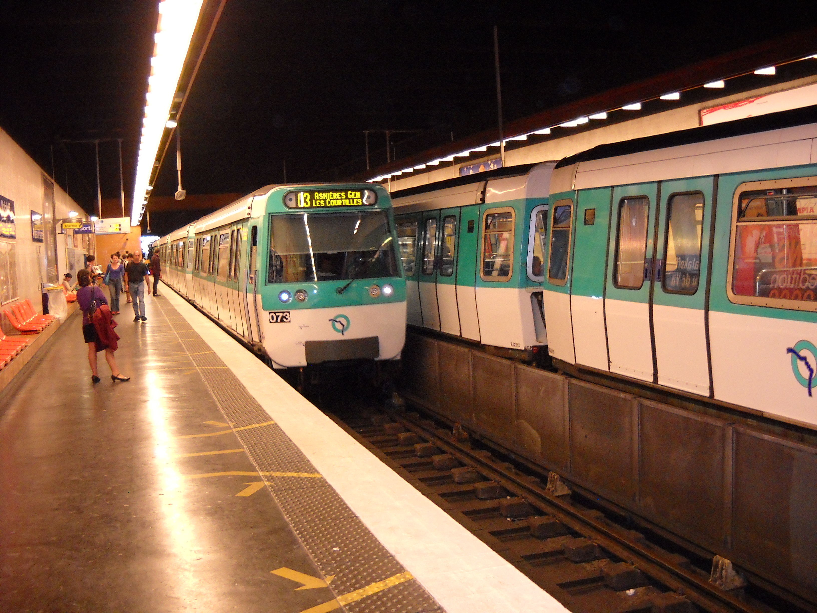 "Malakoff - Plateau de Vanves" station, on Paris Metro line 13.